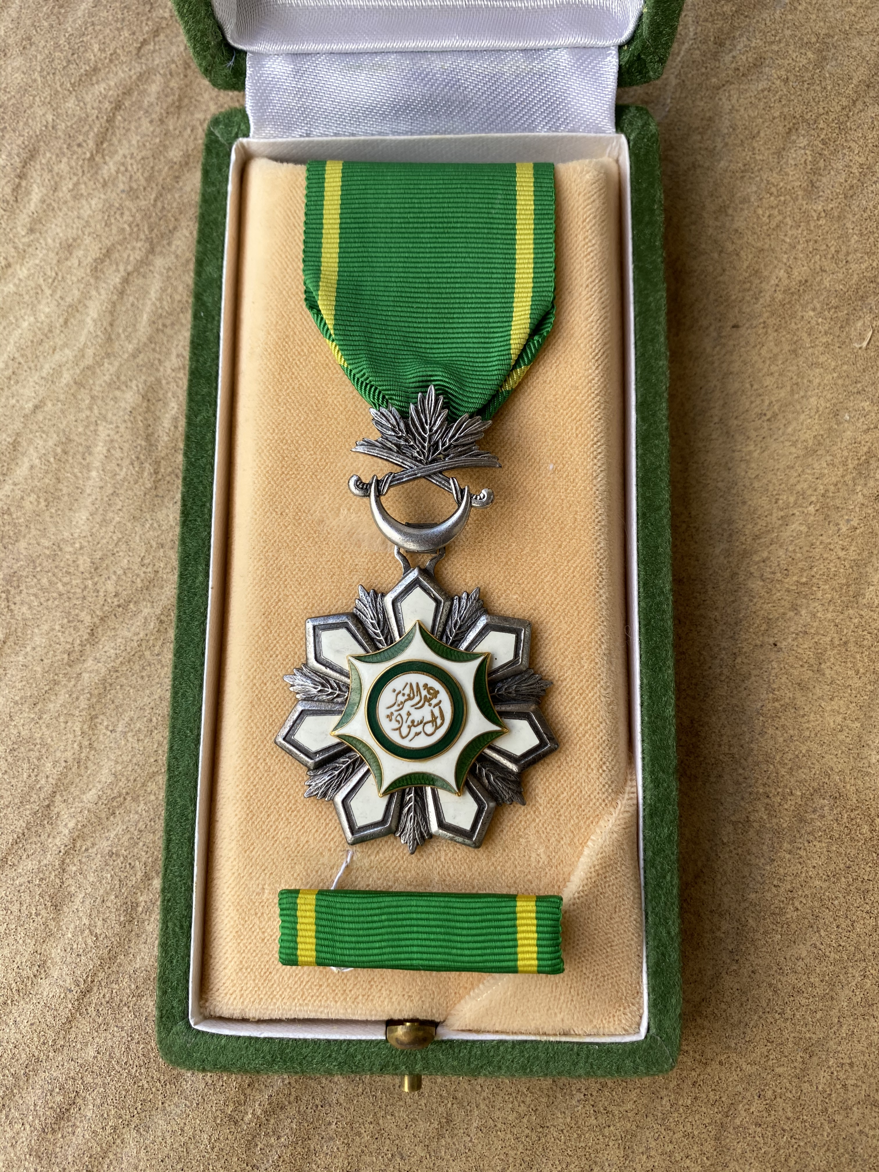 Fifth class of the Order of King Abdul Aziz, Kingdom of Saudi Arabia. AEACollections